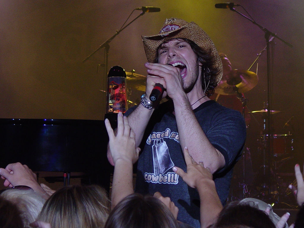 Gavin DeGraw